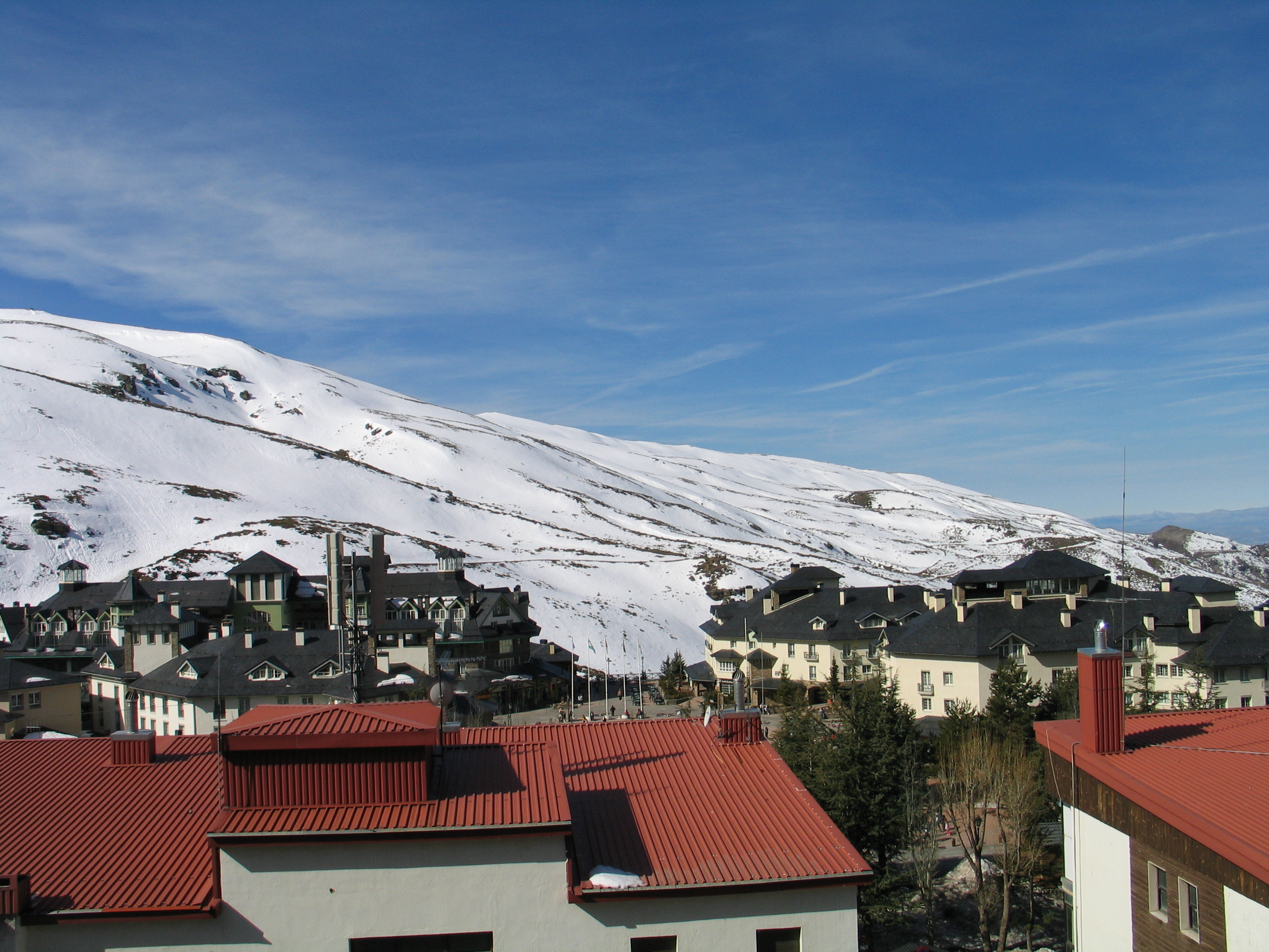 Sierra Nevada ski resort about 30 km from Granada Source: Joonas Lyytinen